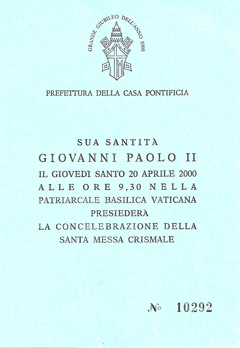 I, Torvindus, have scanned my invitation to the Mass of the Chrism in Saint Peter's, Roma. Picture by Torvindus.